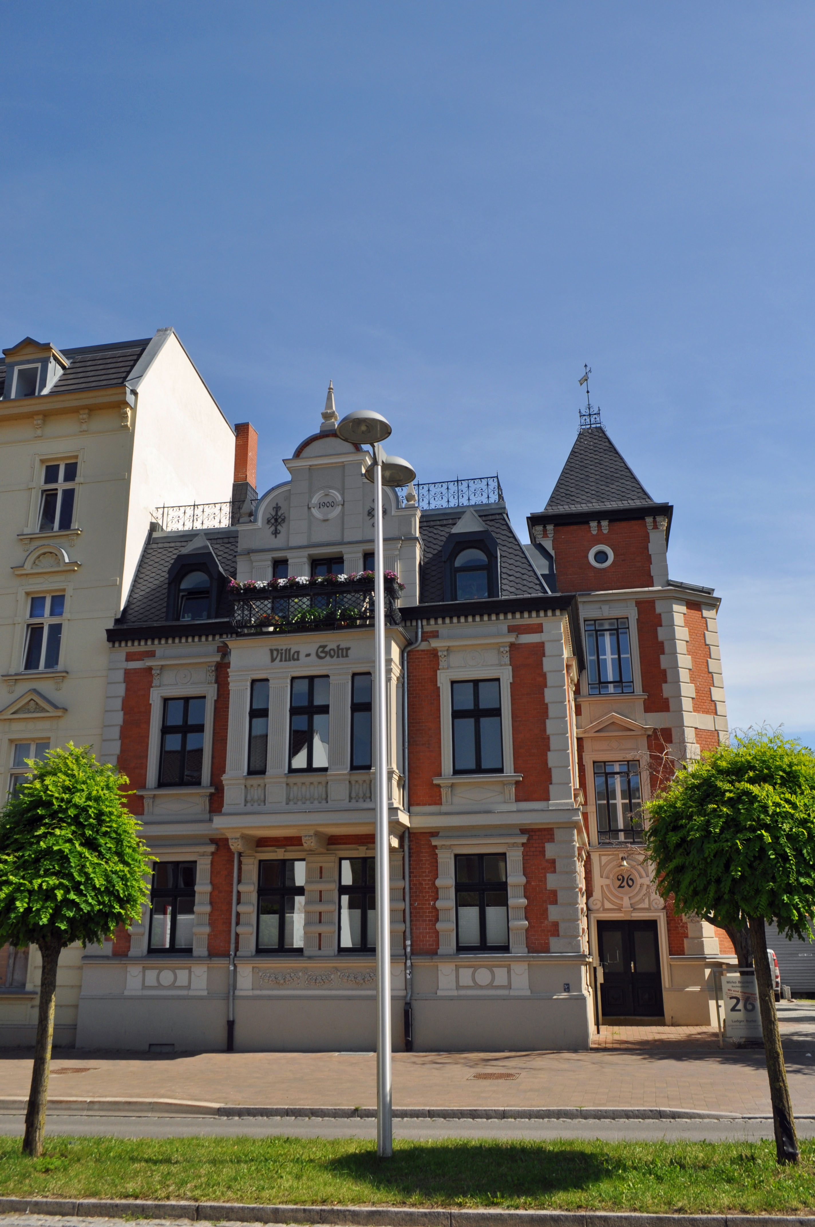 Stralsund, Frankenwall 26 This is a photograph of an architectural monument.